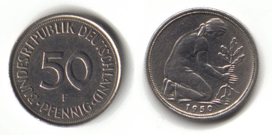 German 50 Pf. Coin